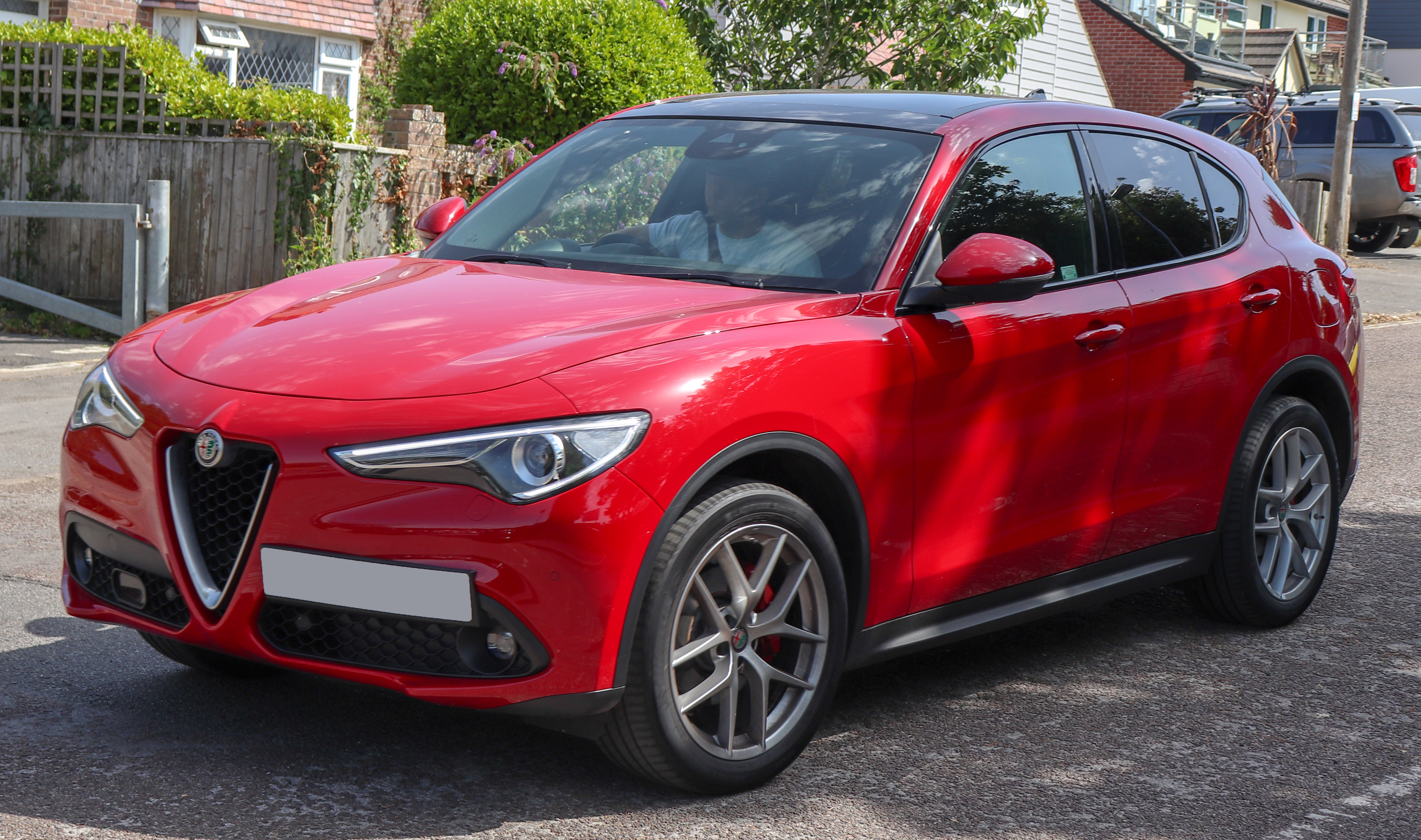 2017 Alfa Romeo Stelvio Milano Edizione TD Automatic 2.1 Taken in Weymouth, Dorset